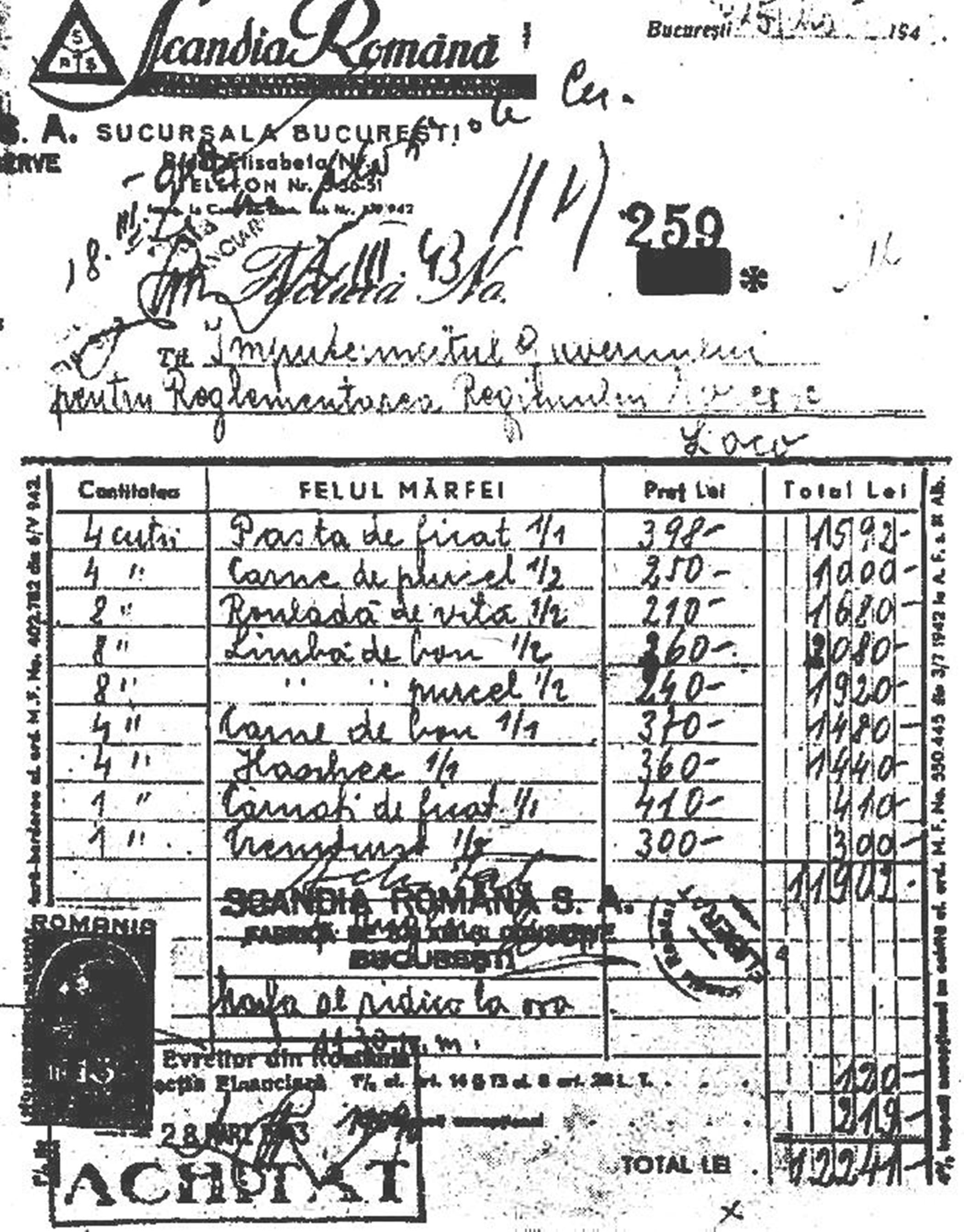 Invoice whereby Scandia Română, the Romanian food producers, confirms the delivery of canned food items to Radu Lecca, the Commissioner for Jewish Issues. It runs a total of 11,902 Lei (as the bottom left stamp ascertains, the bill was settled on March 28, 1943). Lecca paid for such deliveries with money he extorted from the Romanian Jewry, threatened with compulsory labor and/or deportation to Transnistria.